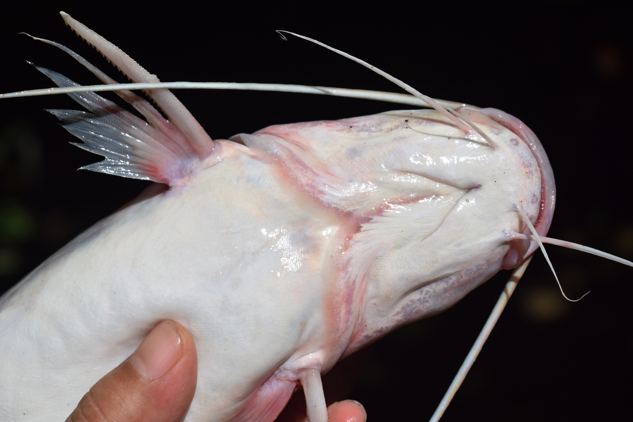 Hemibagrus nemurus, female, 294mm SL; from Cihideung, a tributary of Cisadane River, Bogor, West Java, Indonesia. Anterior part of ventral side.